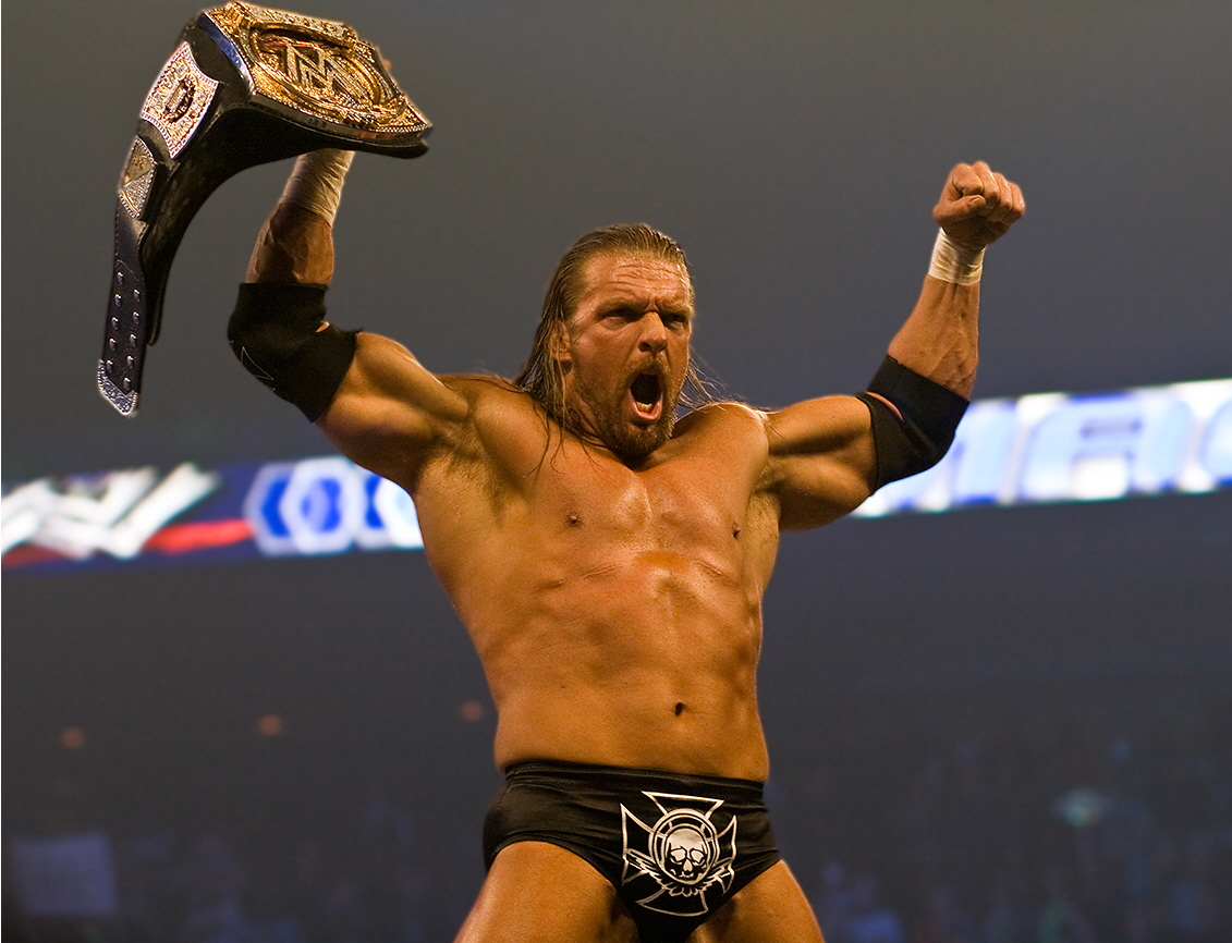 WWE wrestler Triple H at a live event on WWE Friday Night SmackDown in Orlando 2008.